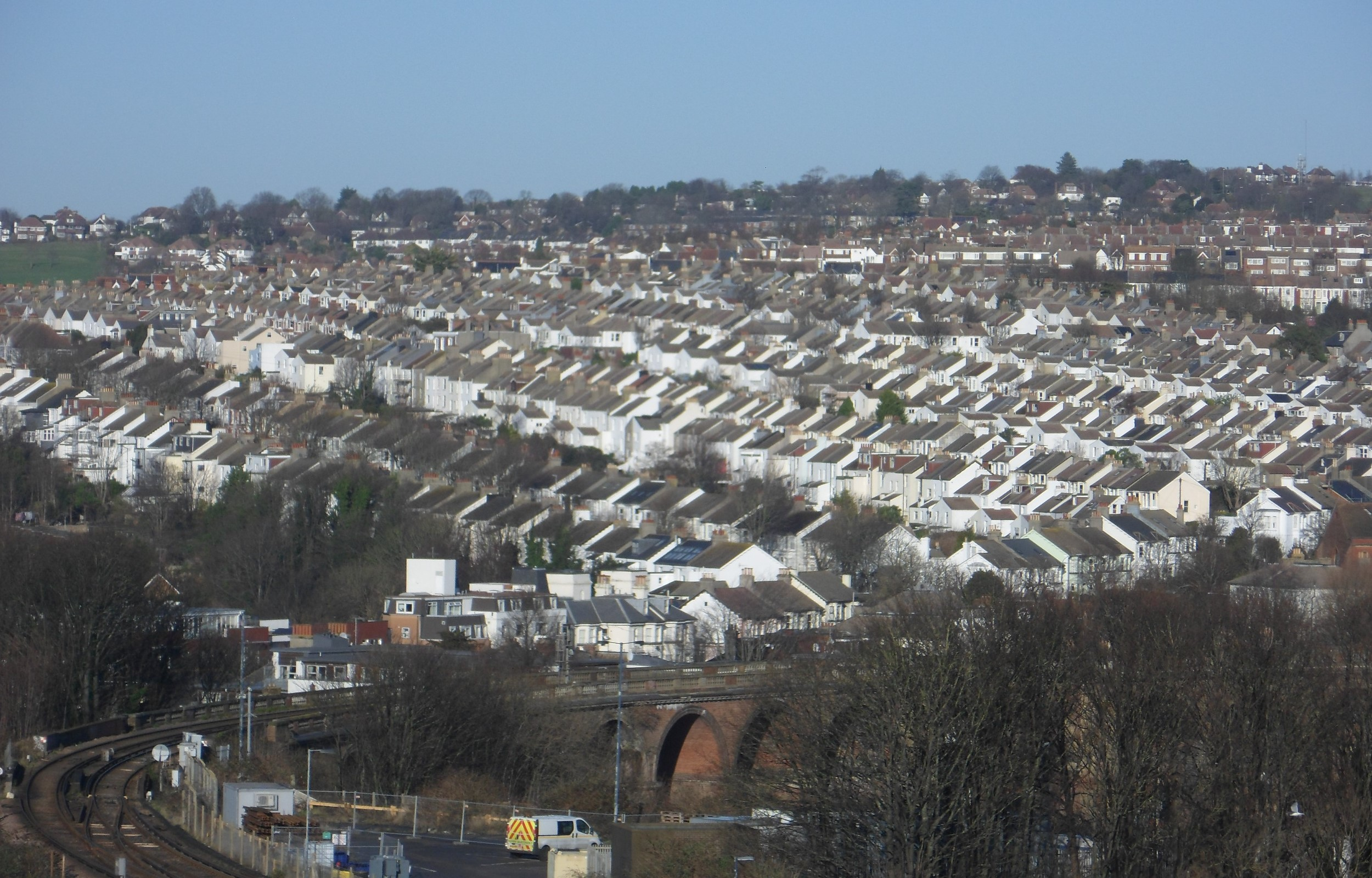 Views of Brighton and Hove #12. This view looks northeastwards from Howard Place, in the West Hill area of Brighton close to Brighton station, towards the vast areas of 19th- and early-20th-century housing to the north and east of Brighton. Areas including Preston Park, Fiveways, Hollingdean and Round Hill are visible. - Google Maps - Google Earth